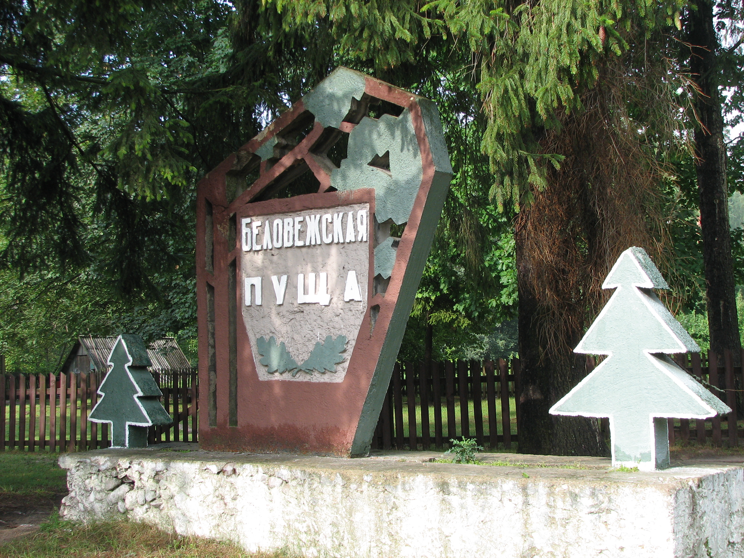 Bely Liasok, Pruzhany district, Belarus